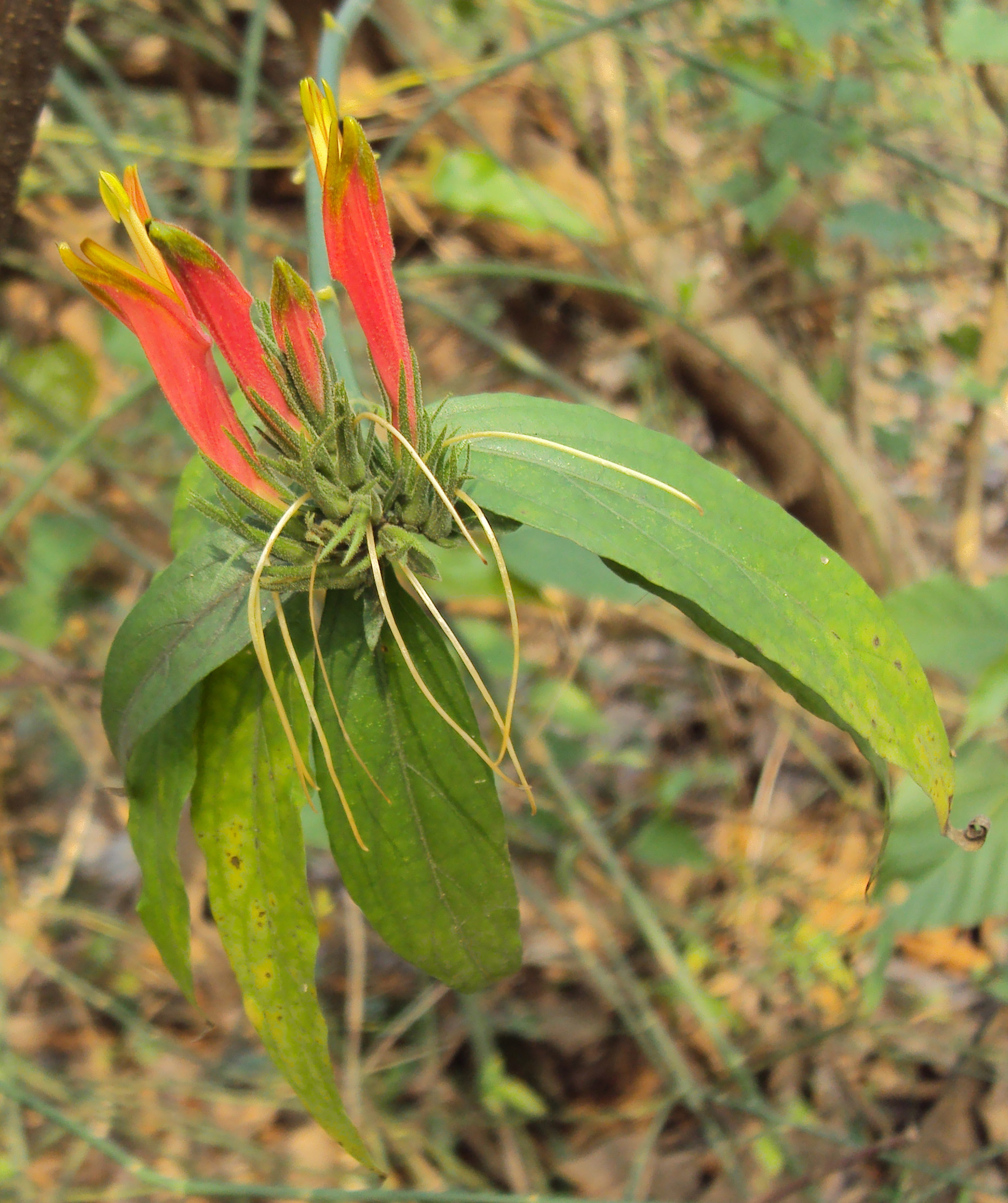 Clinacanthus nutans